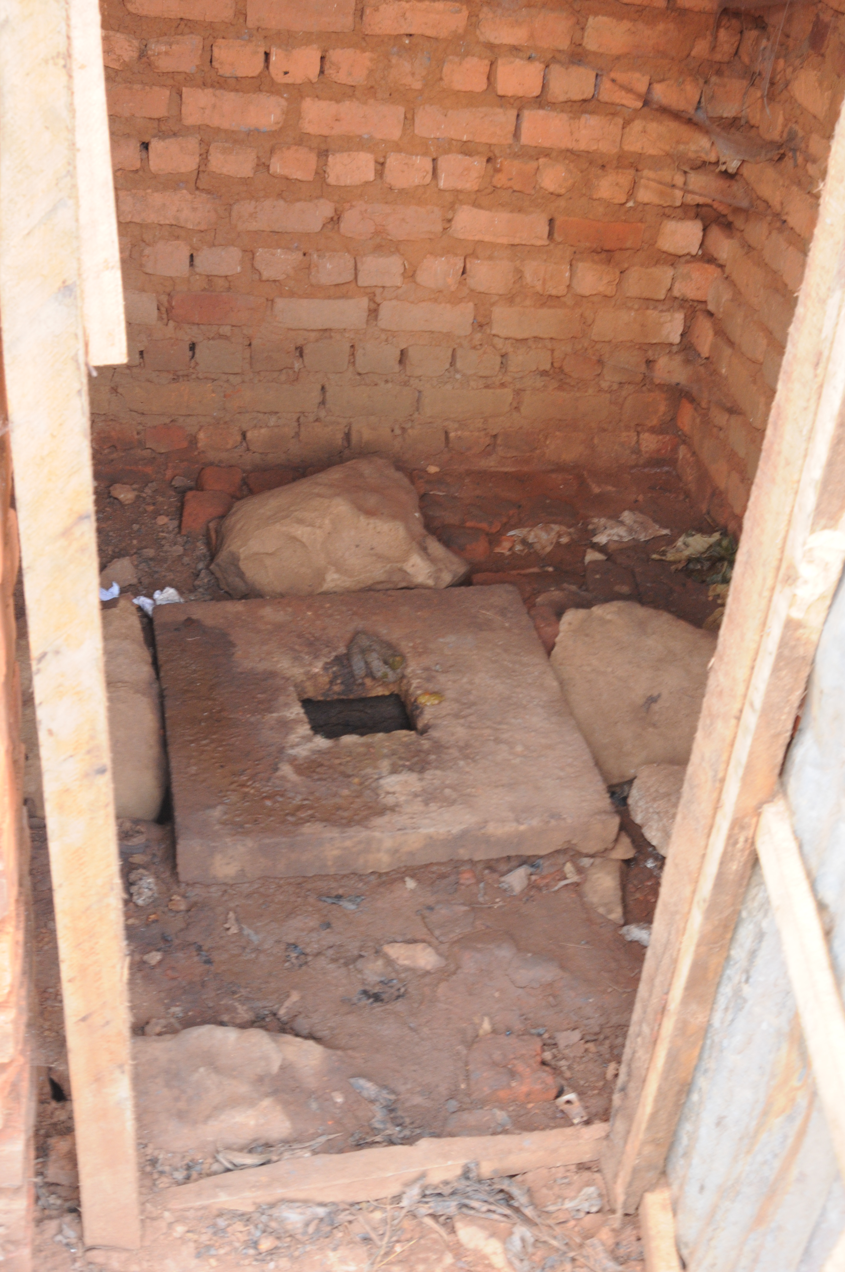 Burundi - Sanitation in Cankuzo / Assainissement à Cankuzo